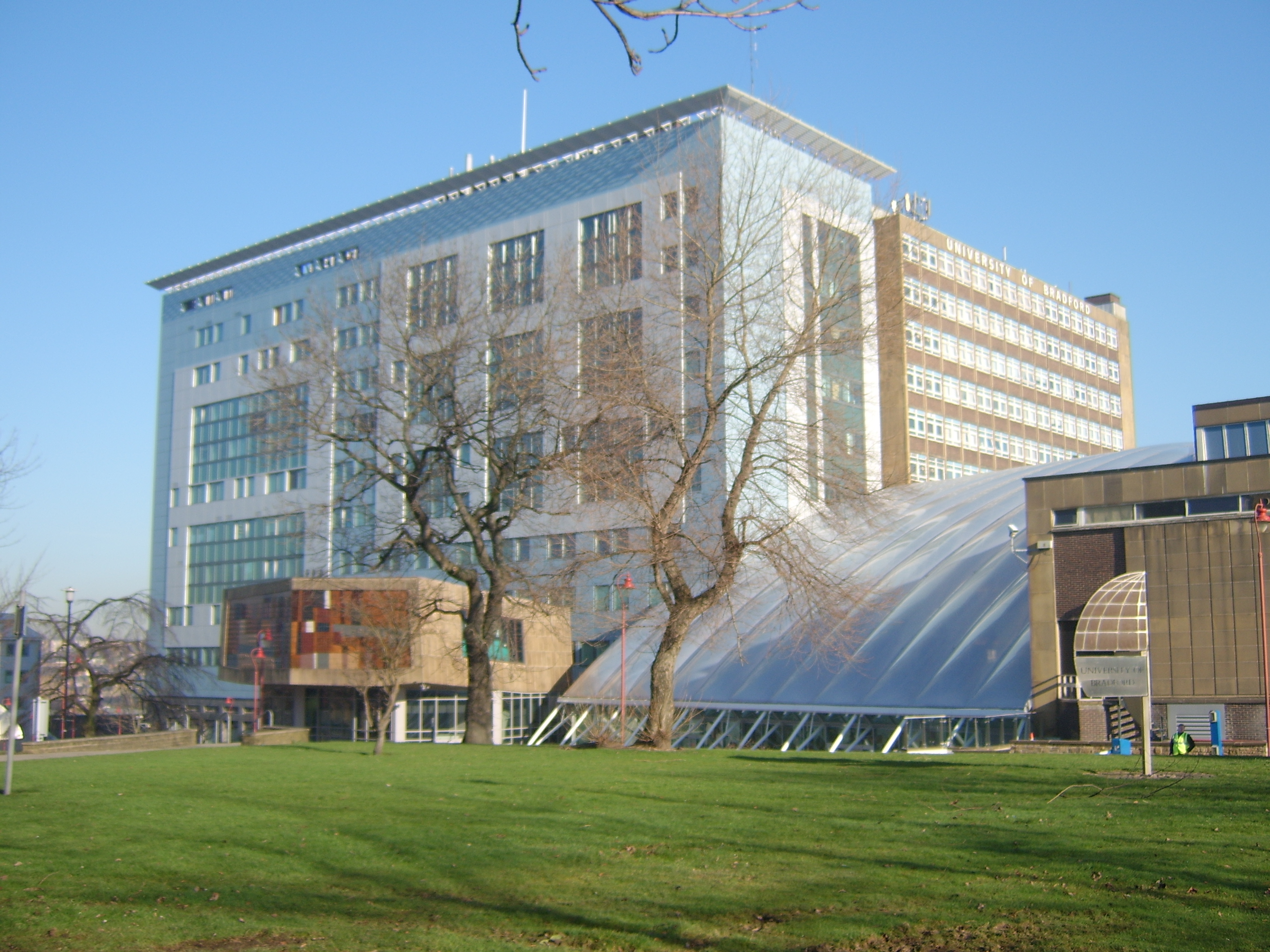 The Richmond Build at the University of Bradford